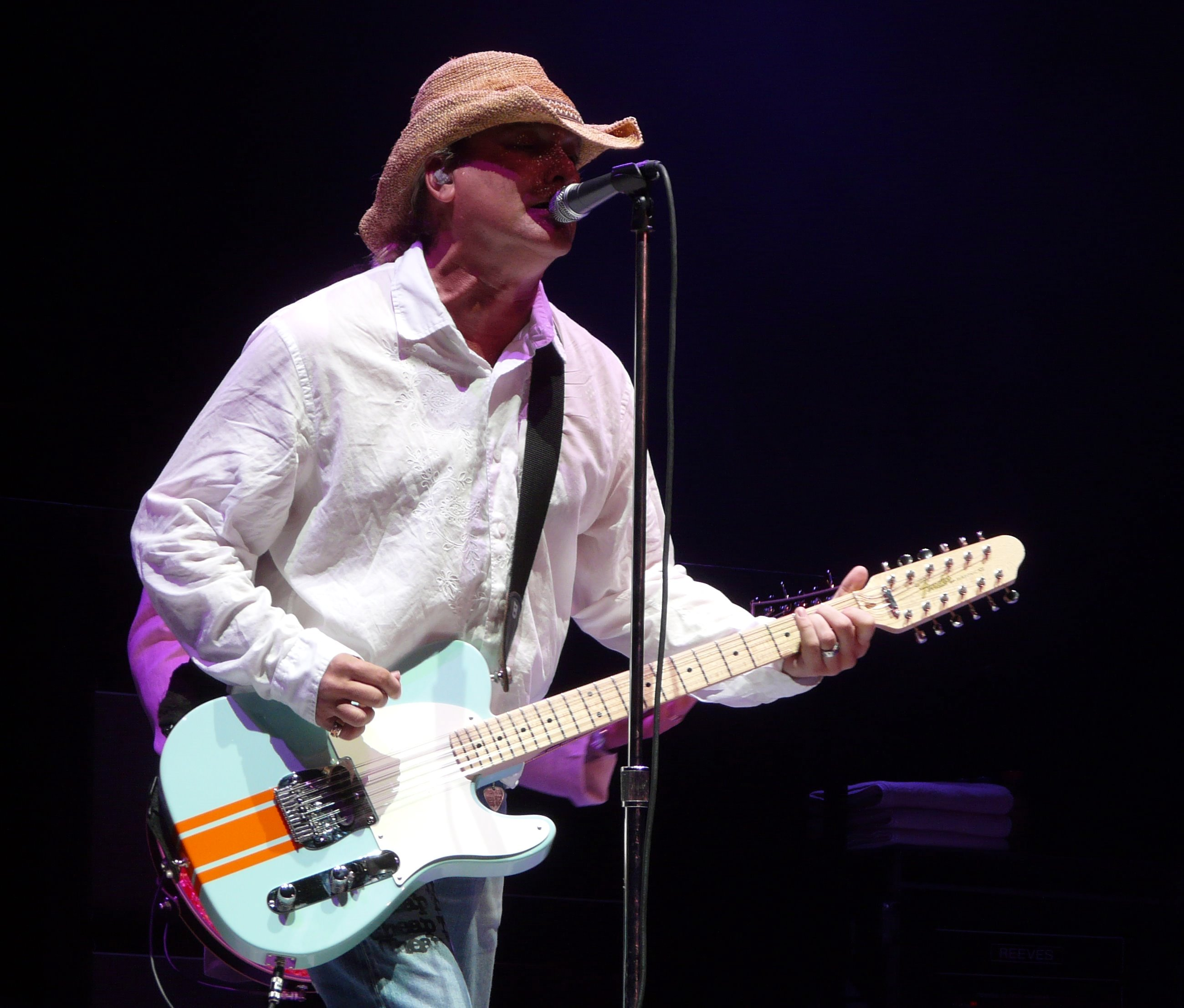 ROBIN ZANDER of CHEAP TRICK Live in Minneapolis, MN on September 16, 2008 PHOTO BY MATT BECKER